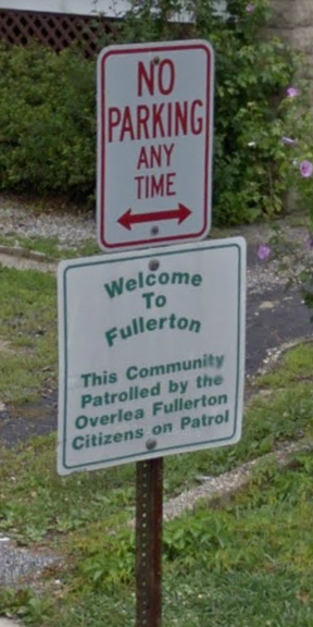 This sign says “Welcome to Fullerton,” under which it reads, “This Community Patrolled by the Overlea Fullerton Citizens on Patrol.”